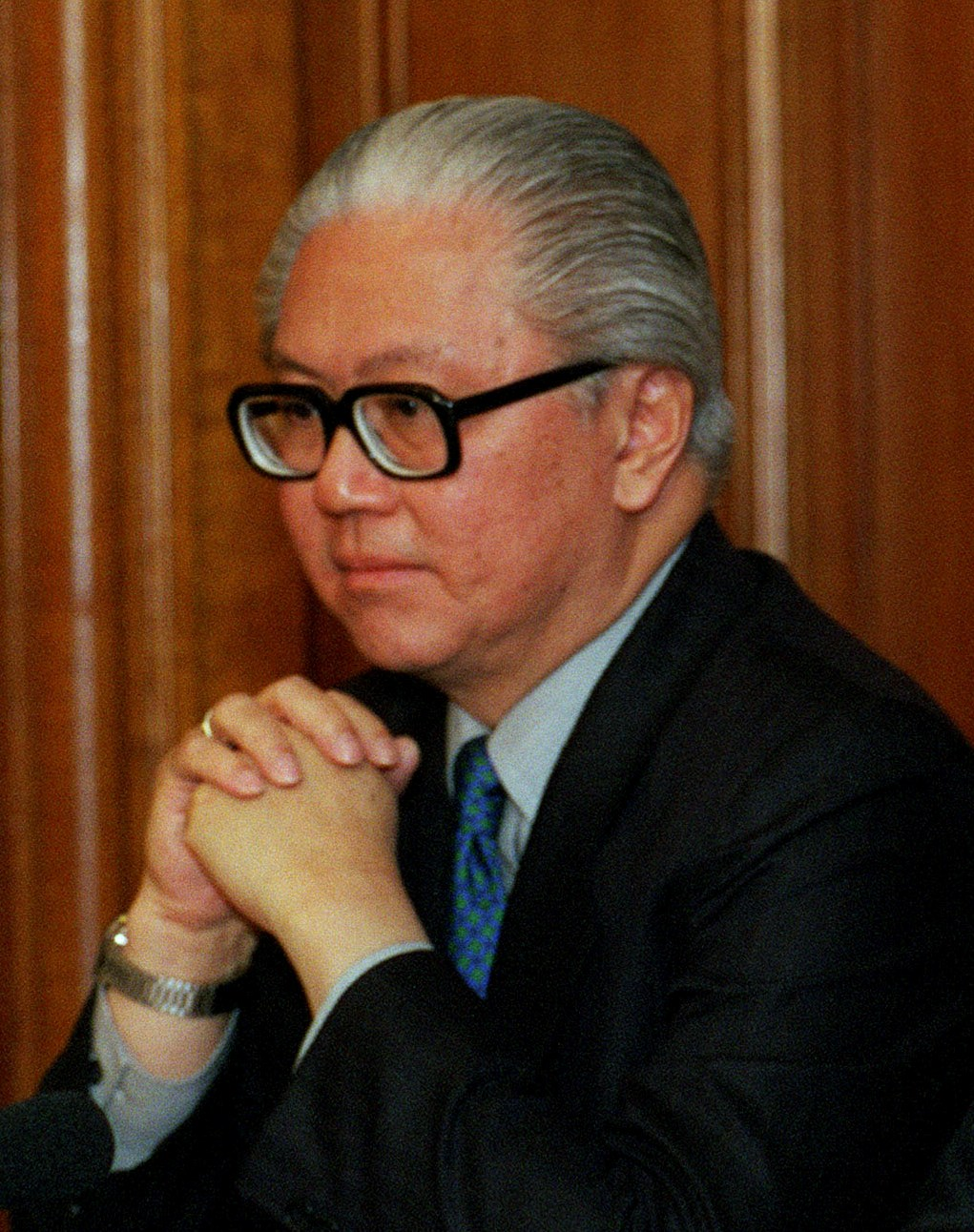 Deputy Prime Minister Tony Tan of Singapore participates in a press conference following a meeting at the Pentagon on Nov. 10, 1998.